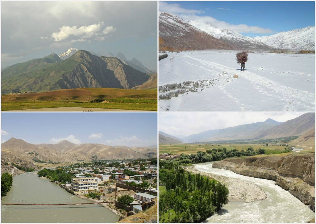 Collage of images showing different places in Badakhshan province of Afghanistan. From left to right; 1. Khowahan; 2. Wakhan; 3. Fayzabad; and 4. Baharak district.